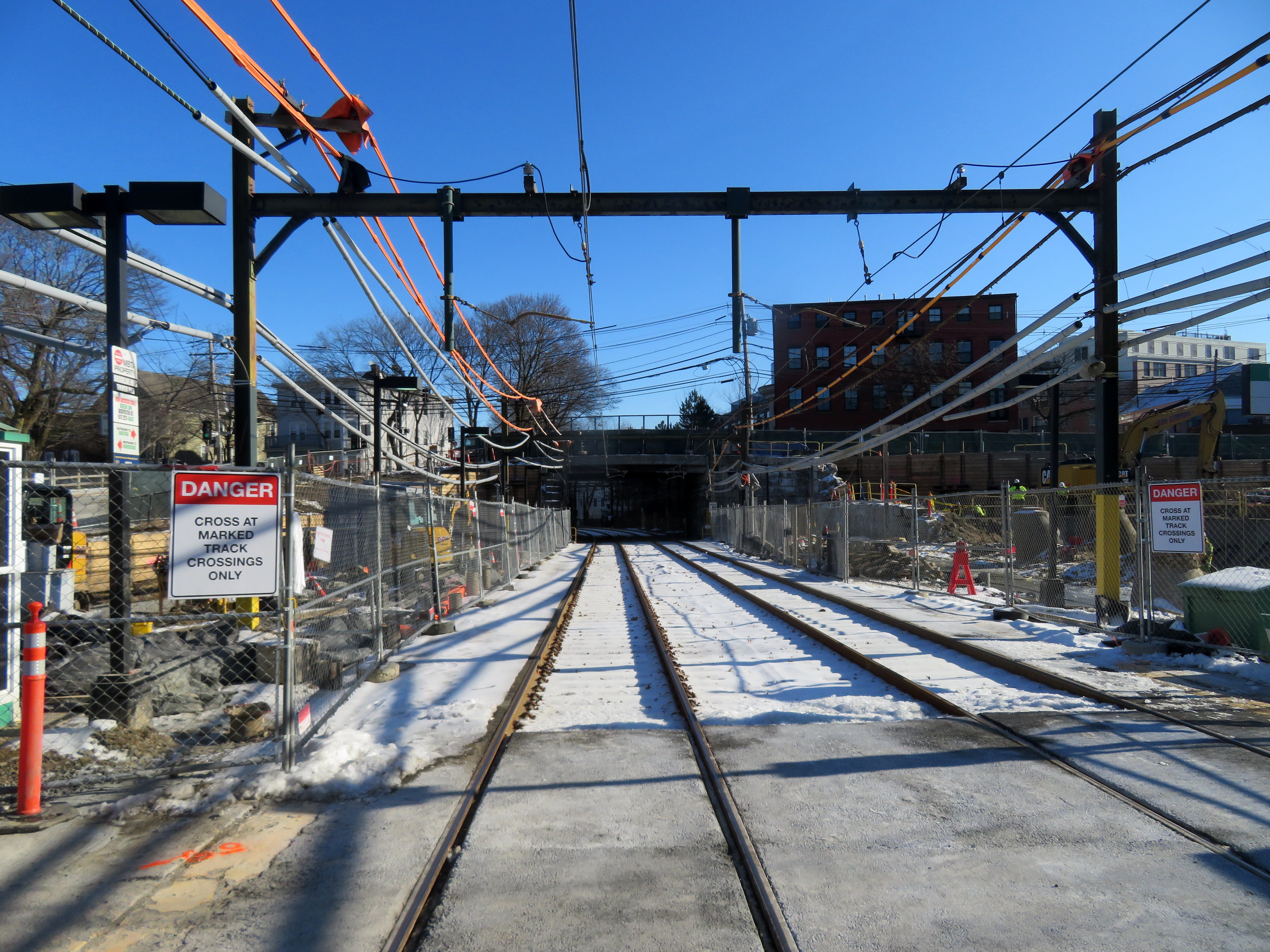 Construction at Brookline Hills station in December 2019